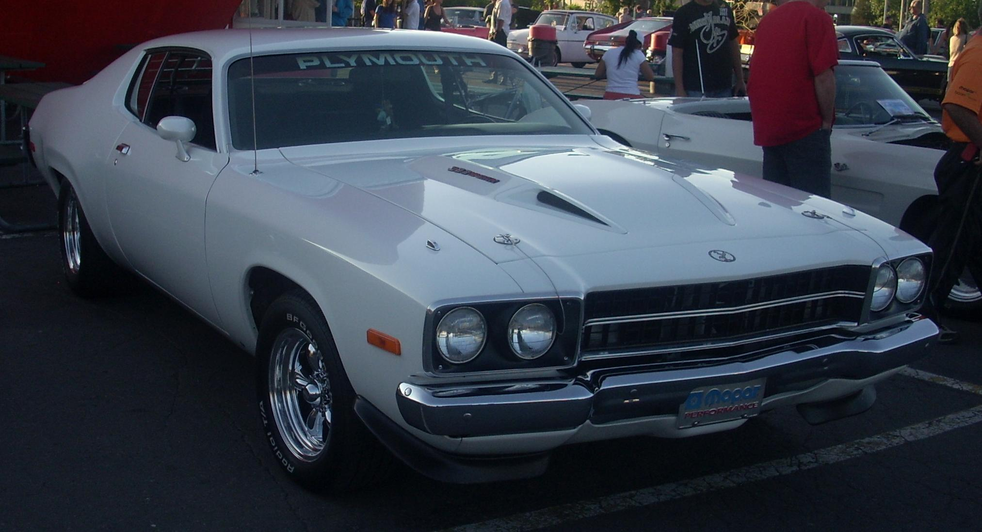 Plymouth Road Runner photographed in Montreal, Quebec, Canada at Gibeau Orange Julep.